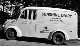 Delivery truck in black and white